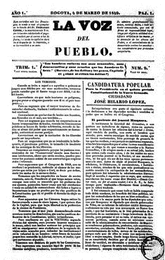 Cover of La Voz del Pueblo - Bogota newspaper